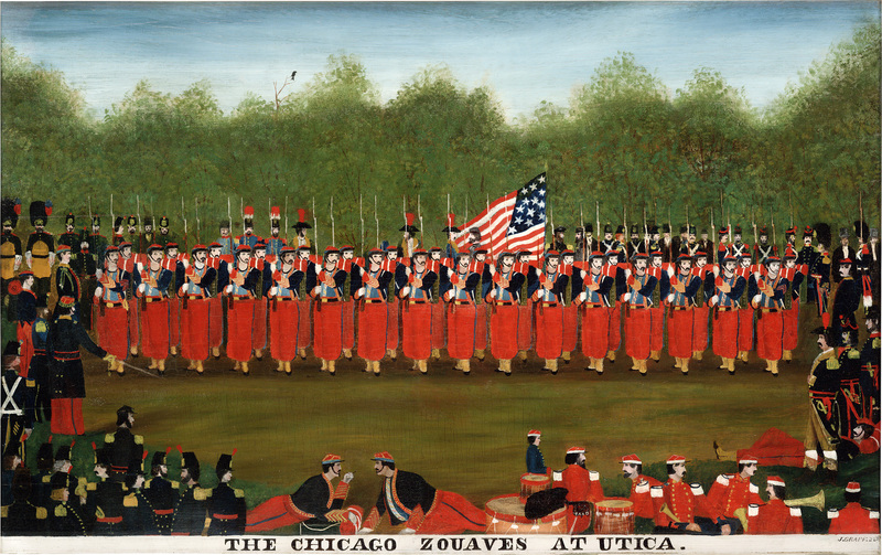 Have you ever seen soldiers dressed like this before? Probably not! They belonged to a volunteer drill team organized in 1859 by Elmer Ellsworth (1837-1861) of Chicago. He copied their name and colorful uniforms after the French Zouaves of the Crimean War. In the summer of 1860, Ellsworth led his troupe on a triumphant tour of twenty eastern cities, including Utica, New York, where J. Graff, a local painter, captured the festive scene. He also included some members of the Untica Brass Band in his painting. Can you find them? Graff was an amateur artist, and the style of this painting shows the simplicity and attention to detail that untrained artists are known for. Notice the flat, bright colors, and the carefully painted buttons on the uniforms. The boldly painted title of the image resembles sign paintings, which many amateur artists often made. Ellsworth and the Zouaves returned to Chicago after their tour and disbanded. Ellsworth moved to Springfield to study law with Abraham Lincoln, and campaigned for him in the 1860 presidential campaign. When the Civil War began, Ellsworth volunteered as the Colonel of the 11th New York Infantry, also known as the “Fire Zouaves” because the members were firefighters in New York City. Ellsworth died on May 24, 1861 while trying to take down a Confederate flag in Alexandria, Virginia, the first Union officer to die in the war. Lincoln mourned his death deeply and gave him a state funeral at the White House. Other Chicago Zouaves also joined the Union army, serving with the Nineteenth Illinois Infantry and wearing the colorful uniforms that Graff documented in his 1859 portrait.